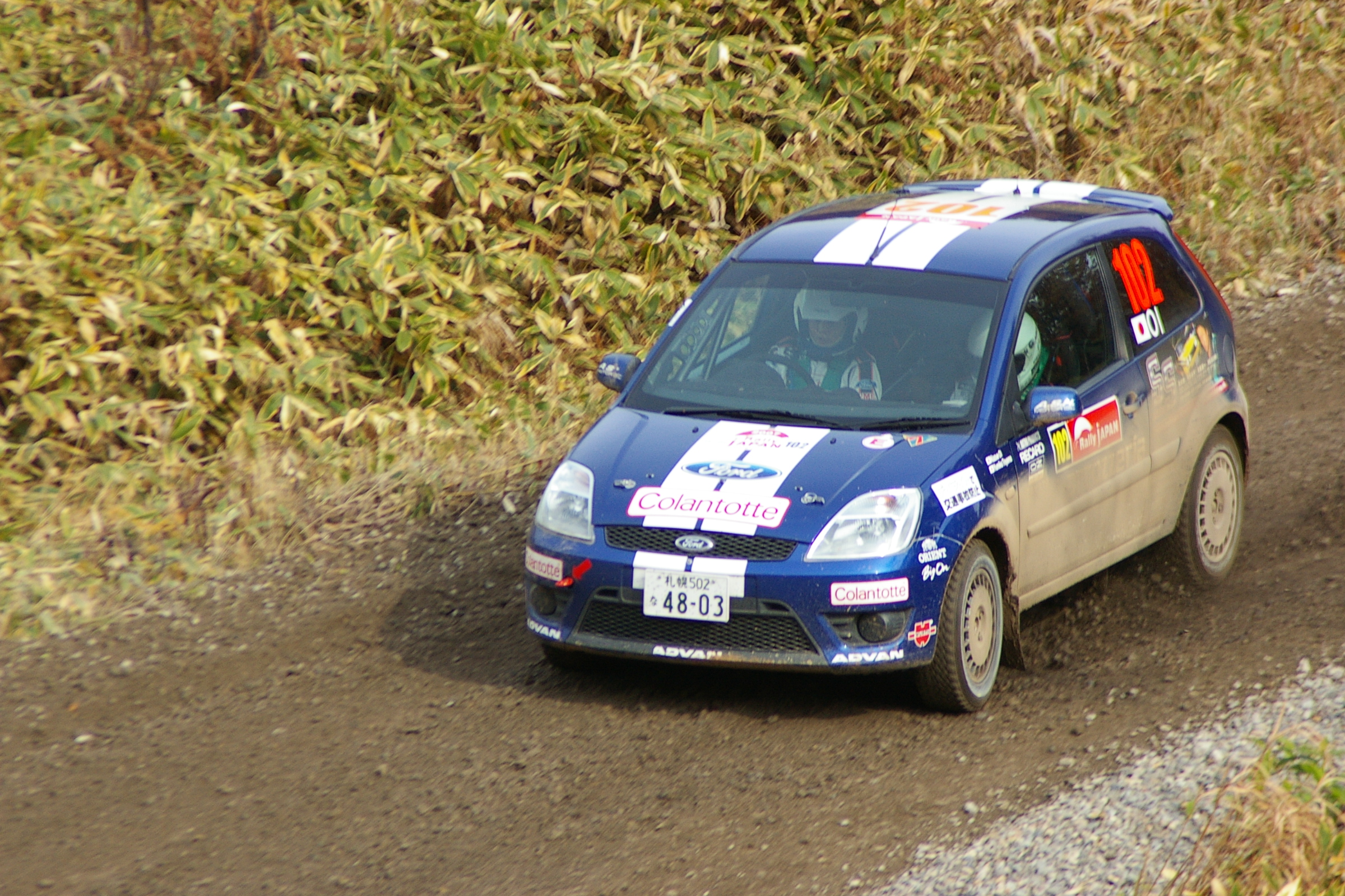 Ford Fiesta Rally car in Rally Japan 2007, No.102 Kodue Oi.